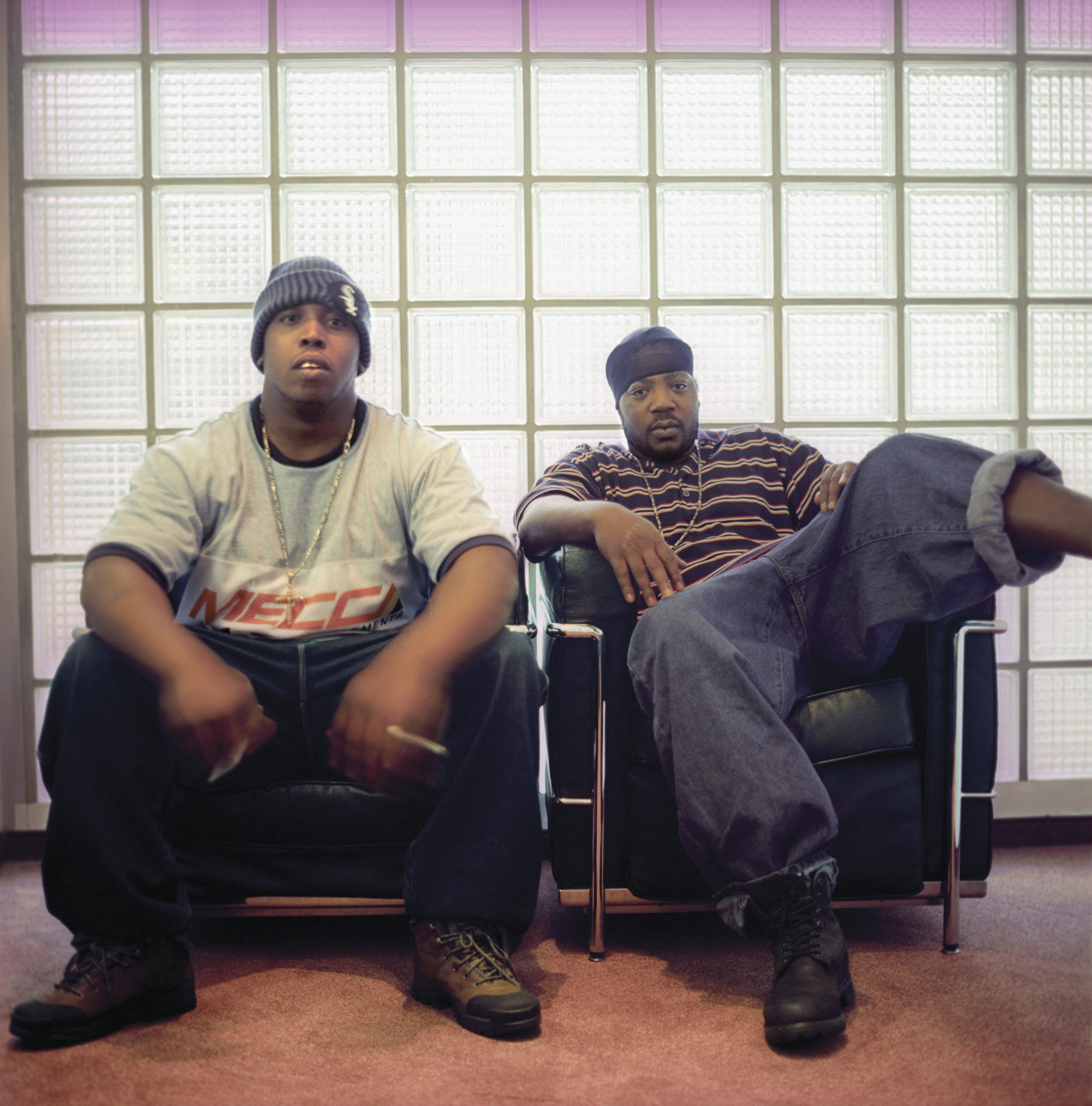 Hamburg/Germany 1999